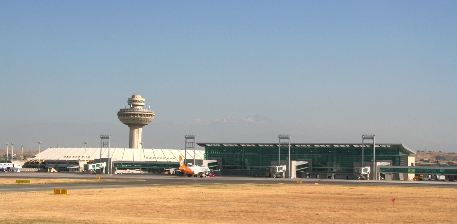 Zvartnots International Airport